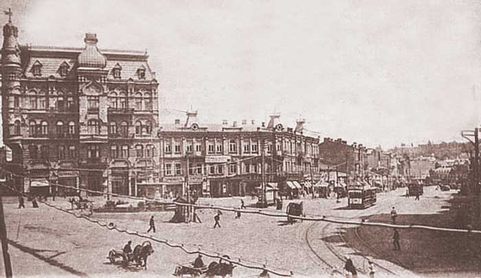 An old photo of Leo Tolstoy Square in Kyiv